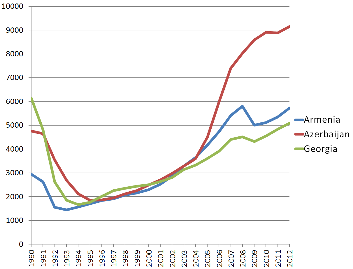 Transcaucasia GDP PPP in constant prices (2005) per capita U.S. dollars